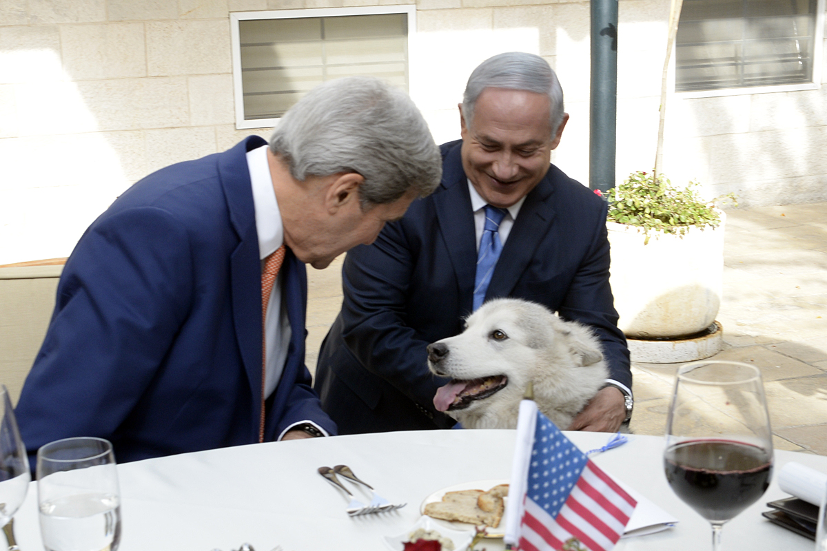 Secretary of State John Kerry with PM Benjamin Netanyahu the PM's Residence, Jerusalem nov. 24, 2015